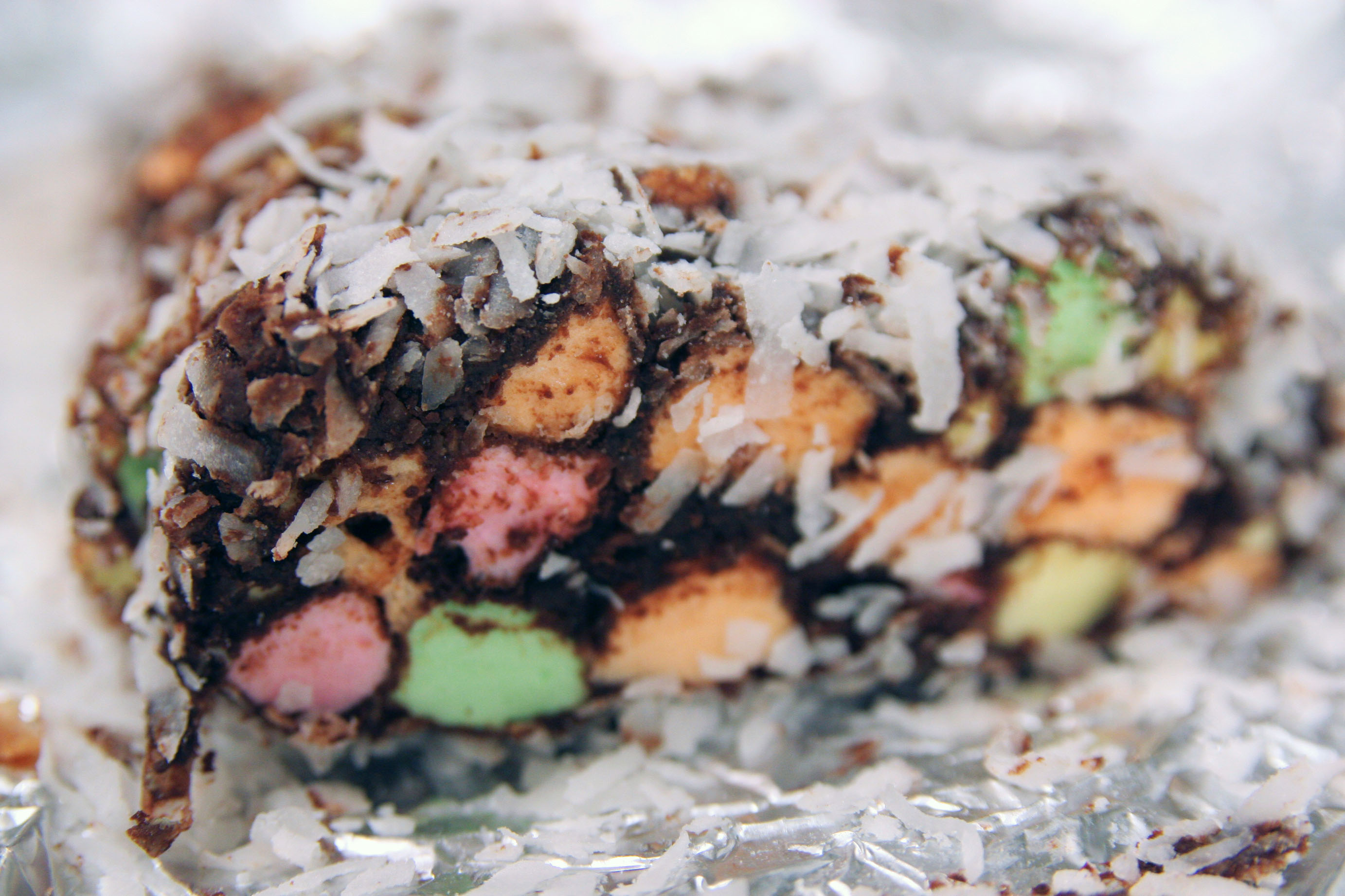 These candy rolls, when sliced, look like church windows.